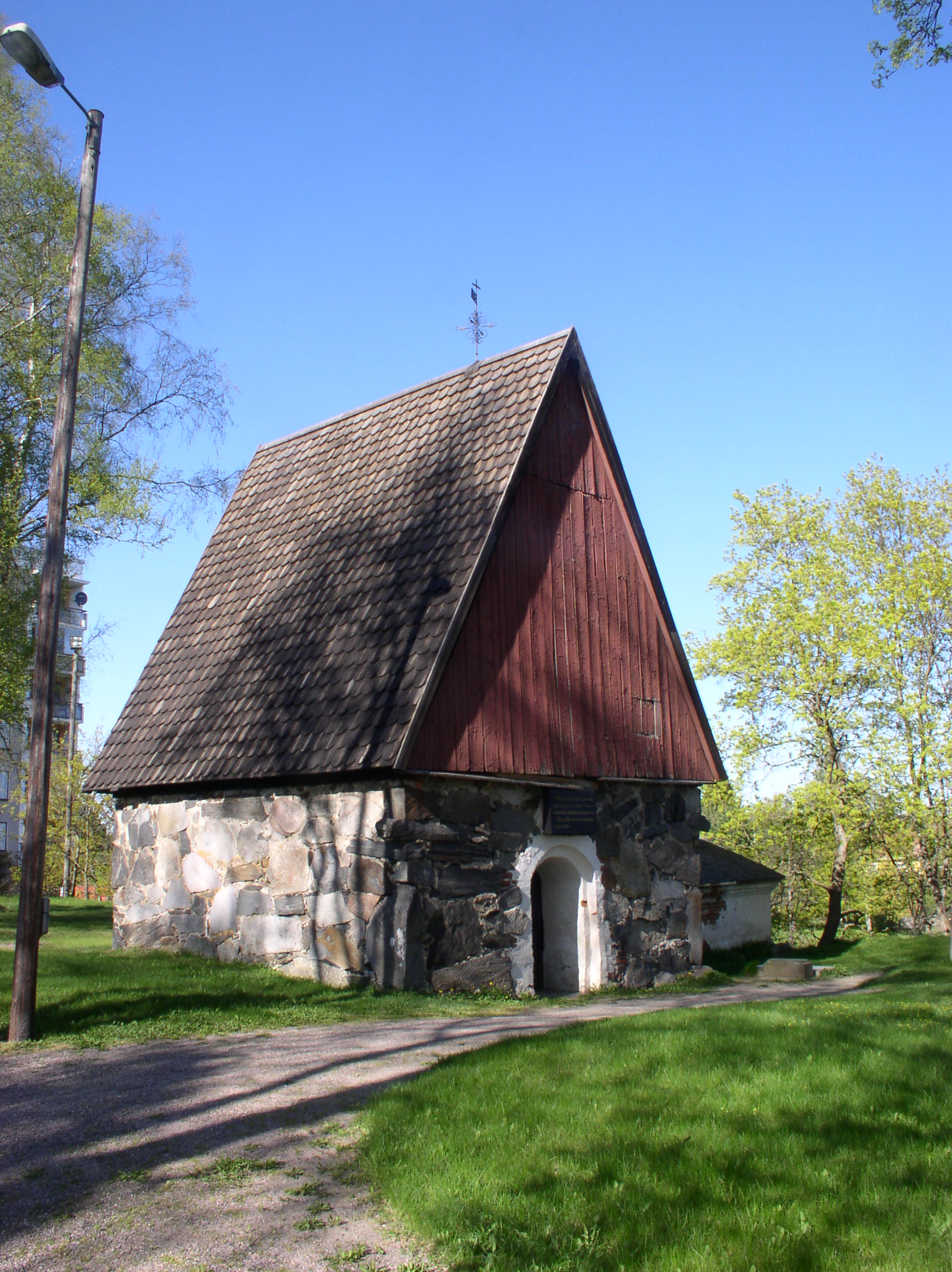 Akaa medieval stone sacristy in Akaa, Finland. The sacristy was part of a wooden church. It is supposed to be the first part of a planned stone church. The plan was never finished.